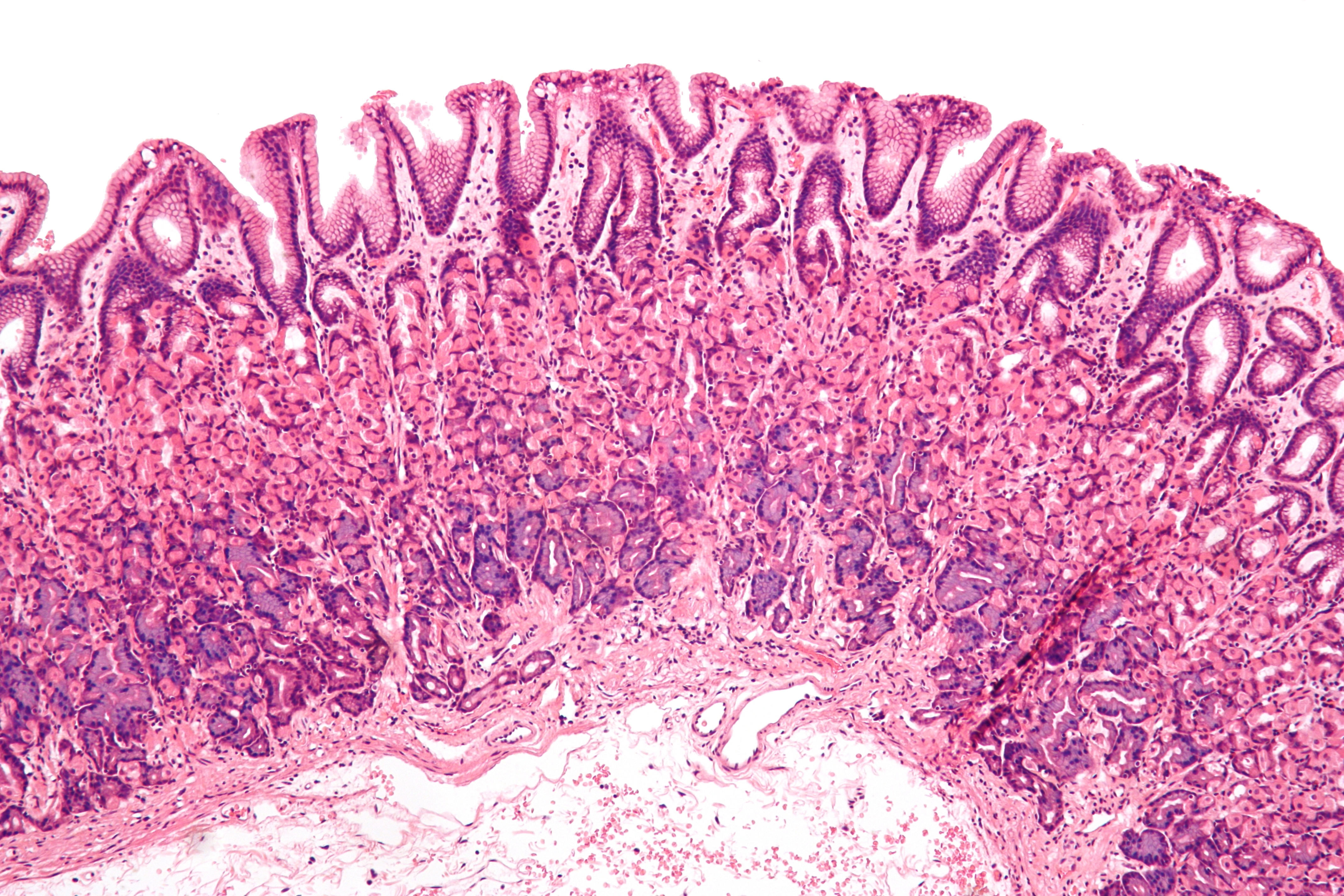 Low magnification micrograph of normal (human) gastric mucosa, i.e. inner most layer of the stomach. H&E stain. Related images Low mag. Intermed. mag. Other images Gastric antrum: Intermed. mag. High mag. Very high mag.